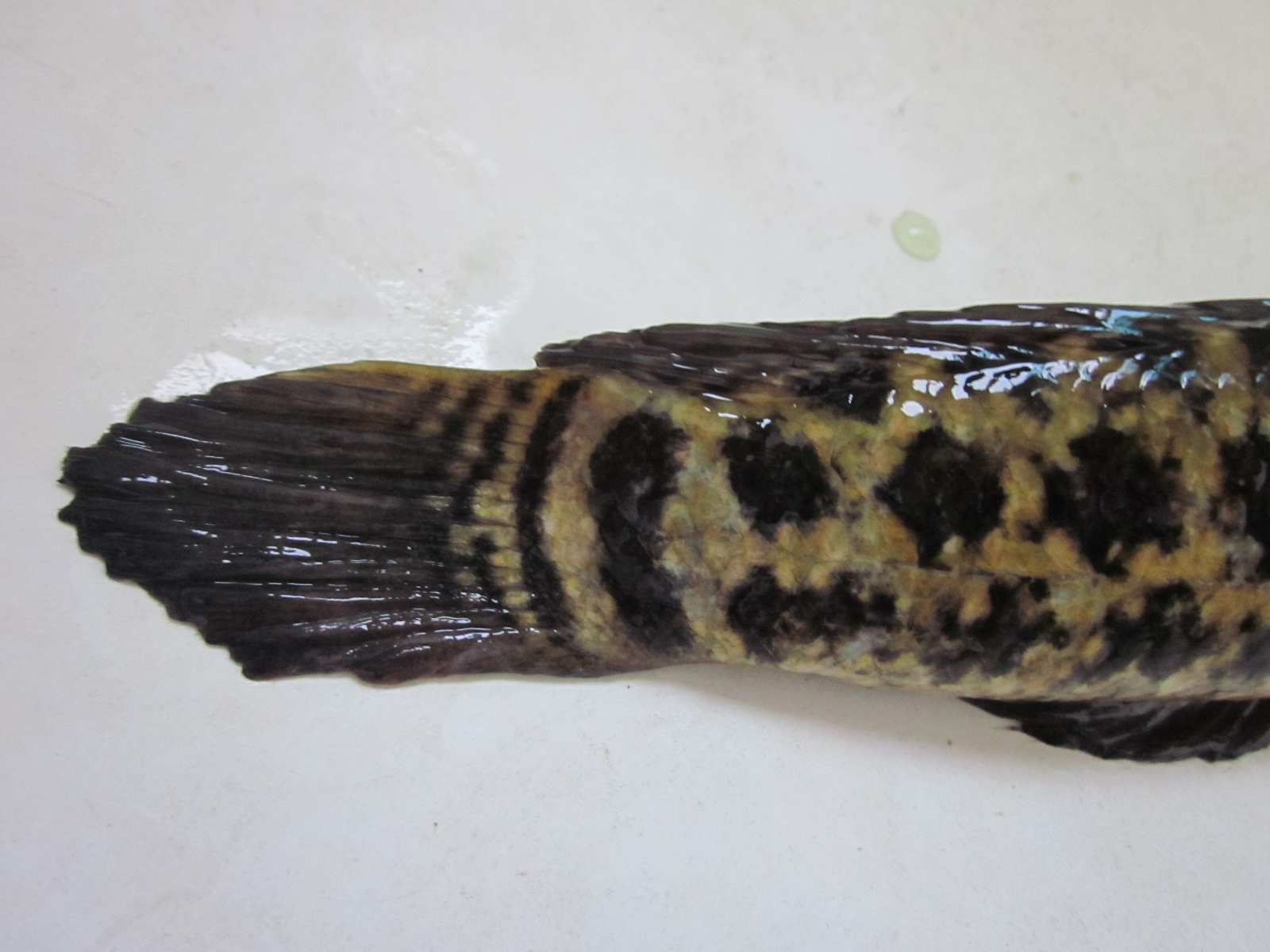 Channa argus